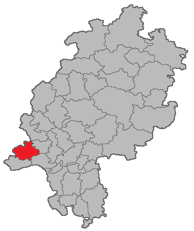 Map of the district court Bad Schwalbach in Hesse